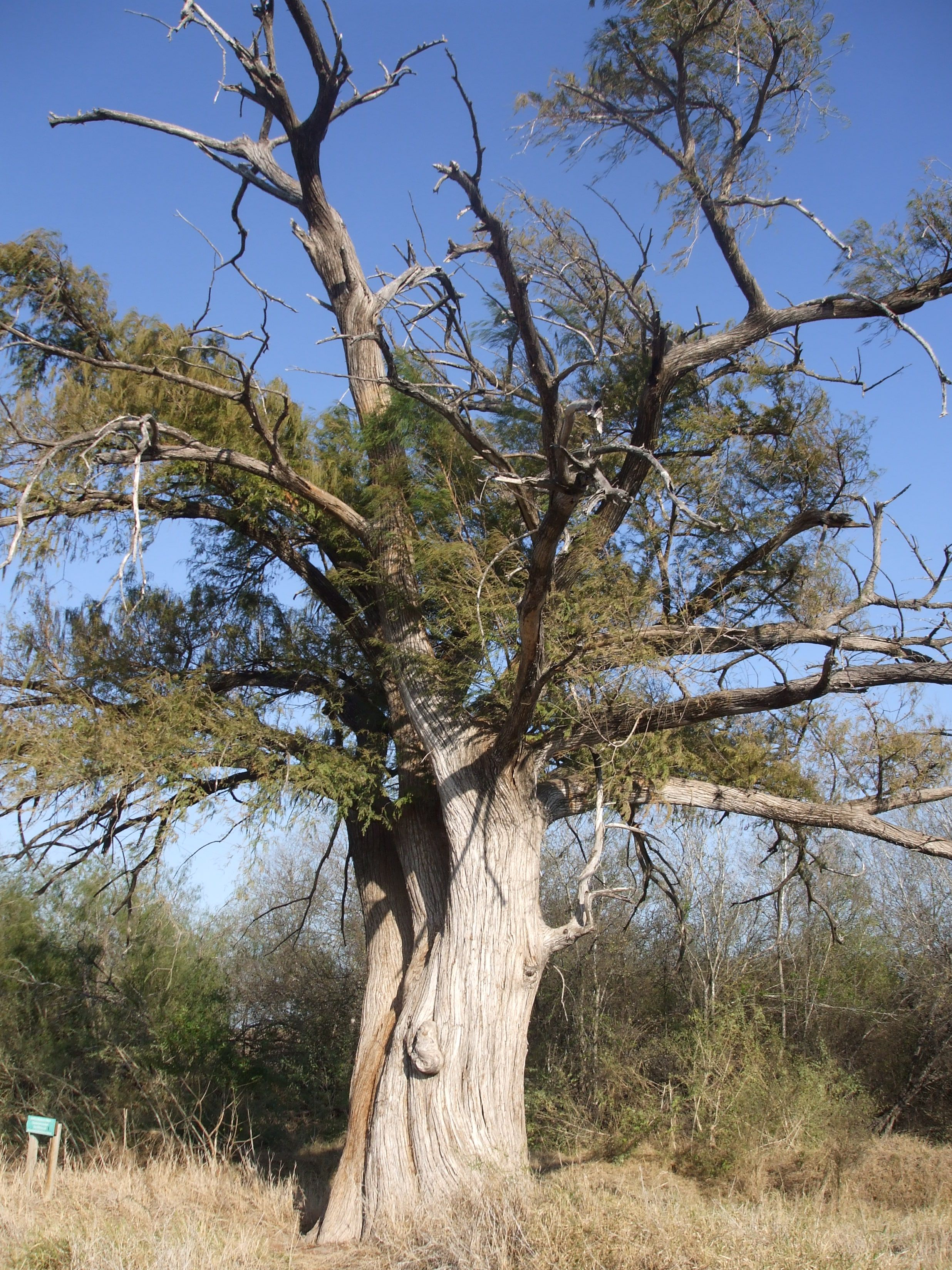 Montezuma Baldcypress tree, 900 years old, Abram, TX